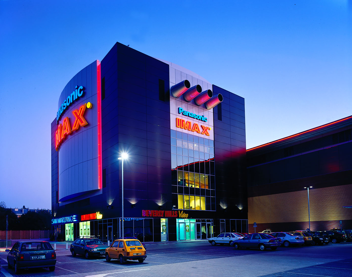 An IMAX theatre in Warsaw, Poland.